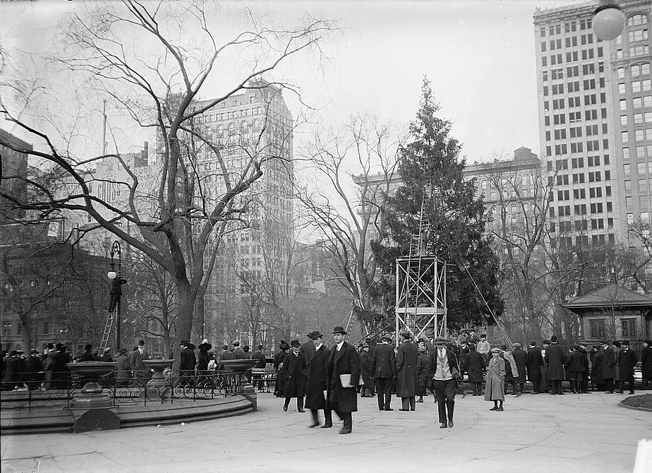 View of the Christmas tree in Madison Square Park in New York City, circa 1910.